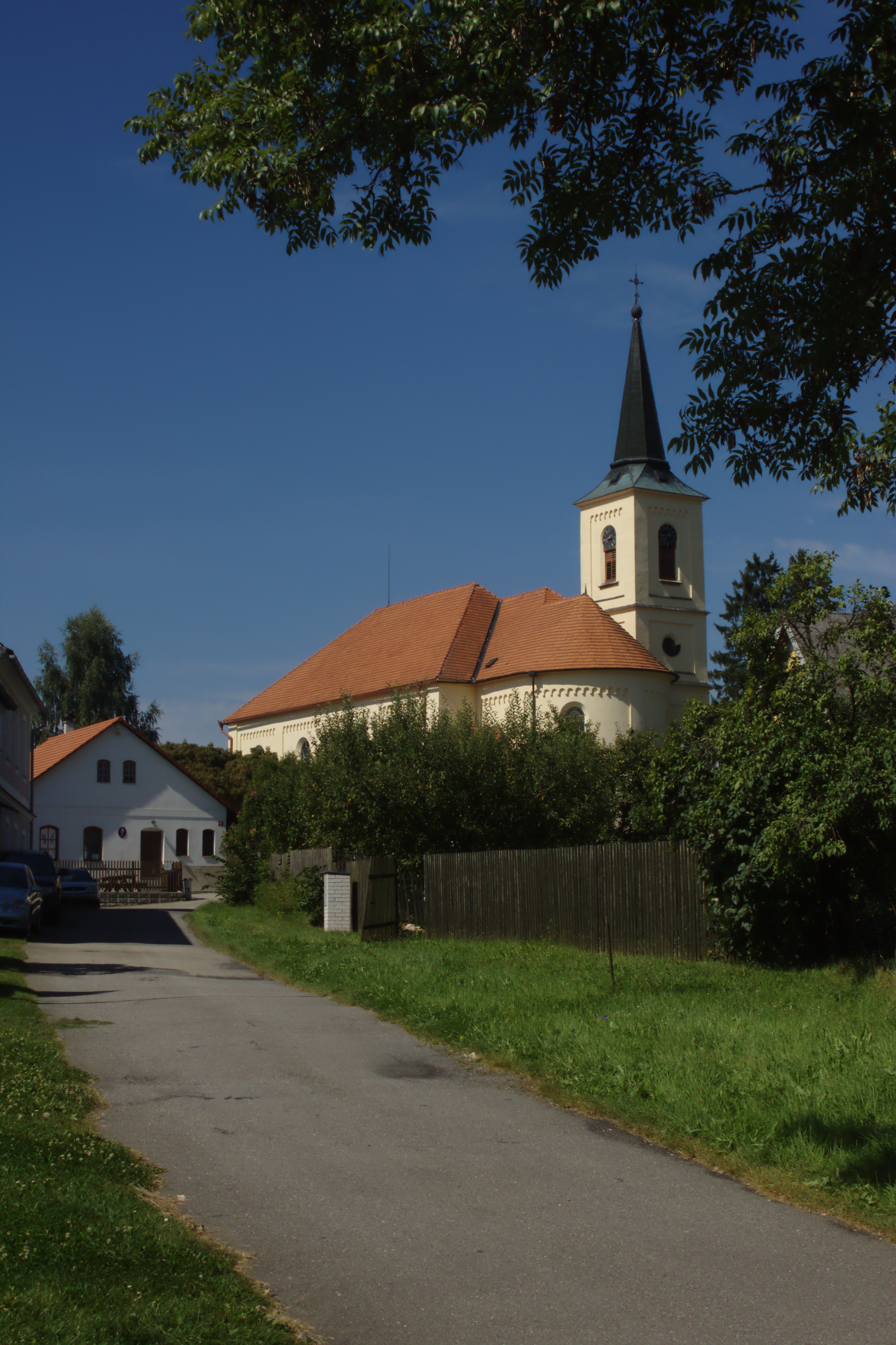 View of the church in the village of Hartvíkov